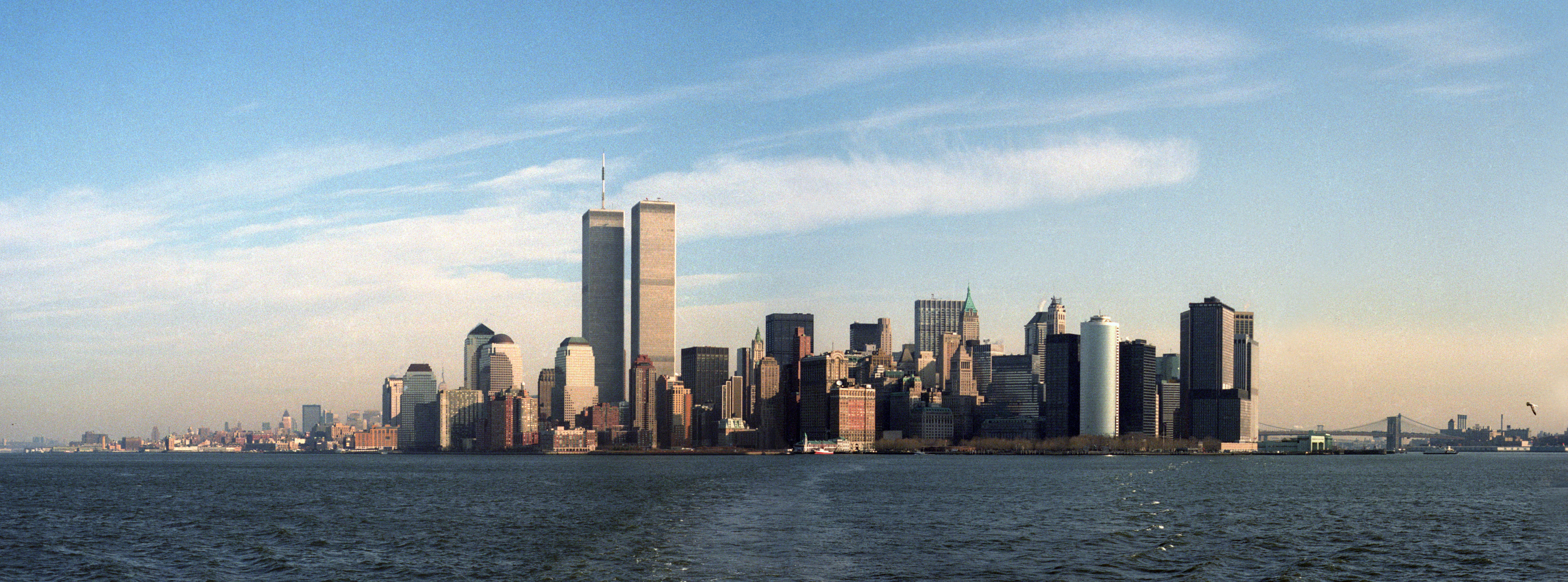 Lower Manhattan skyline, December 1991.